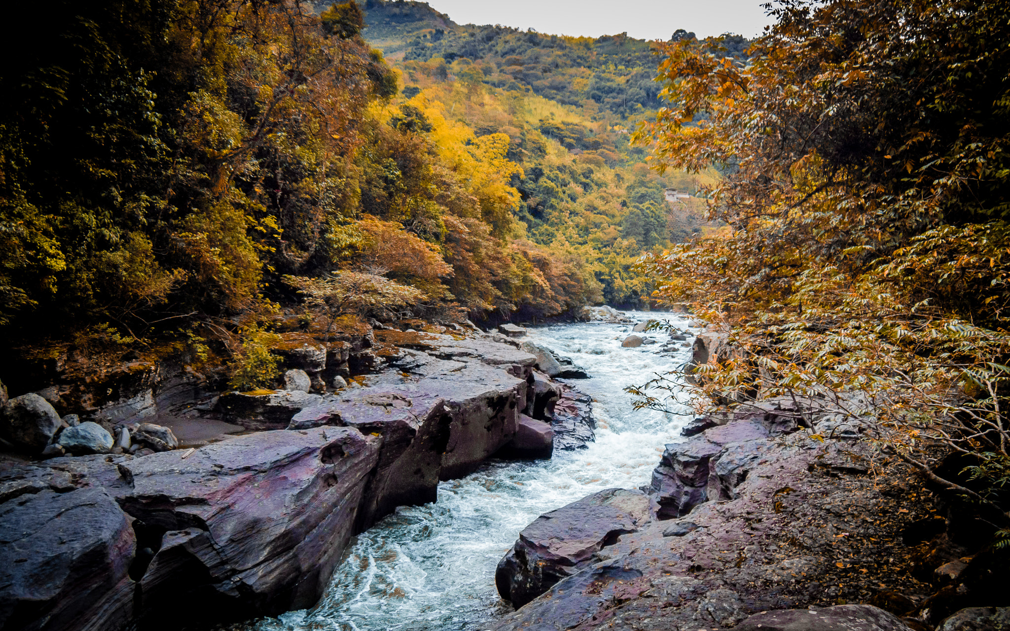 500px provided description: Estrecho del magdalena, San Agust?n. [#autumn ,#trees ,#forest ,#water ,#river ,#travel ,#green ,#kodak ,#z990 ,#Colombia ,#Huila ,#San agust?n]